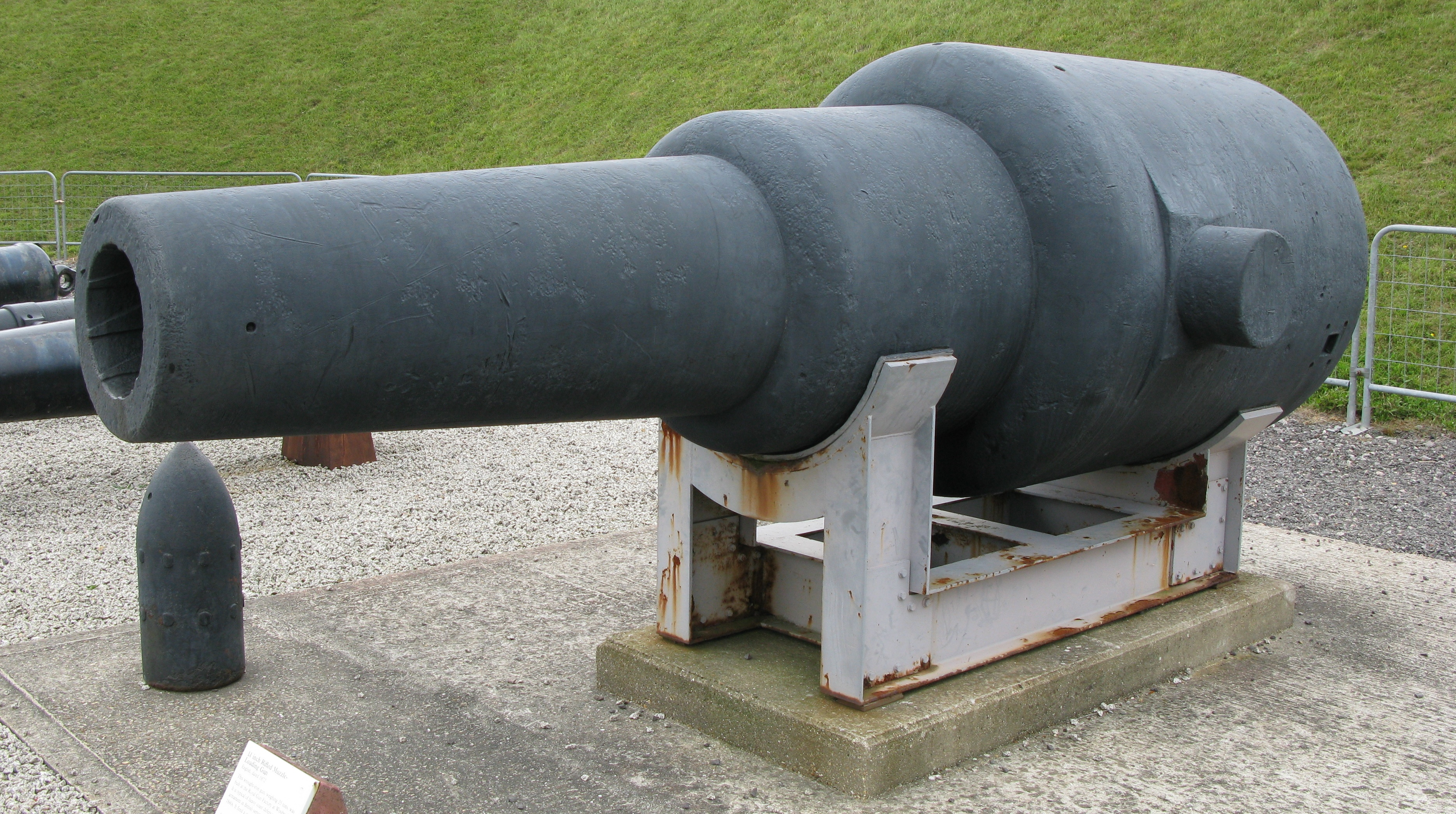 11-inch muzzle loading rifled gun Mk II. This is No. 30, made by the Royal Gun Factory in 1872. These guns were used in turrets on ships (such as HMS Alexandra (1875)) and for shore defence. The shell on the bottem left of the image is a 12 inch shell with studs for the Woolwich groove type rifling system.